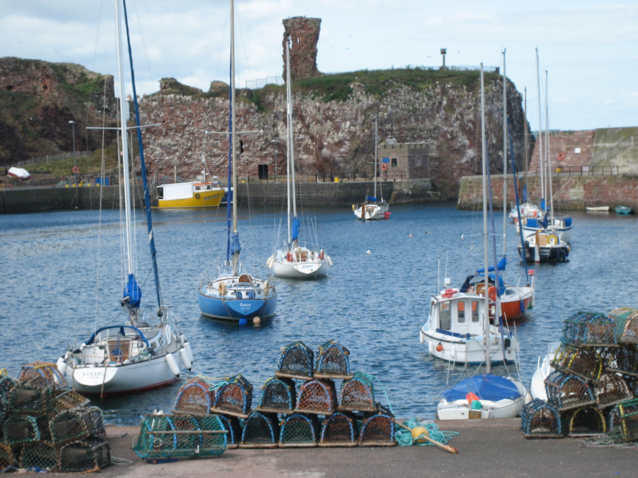 Looking across the Harbor at Dunbar Castle.